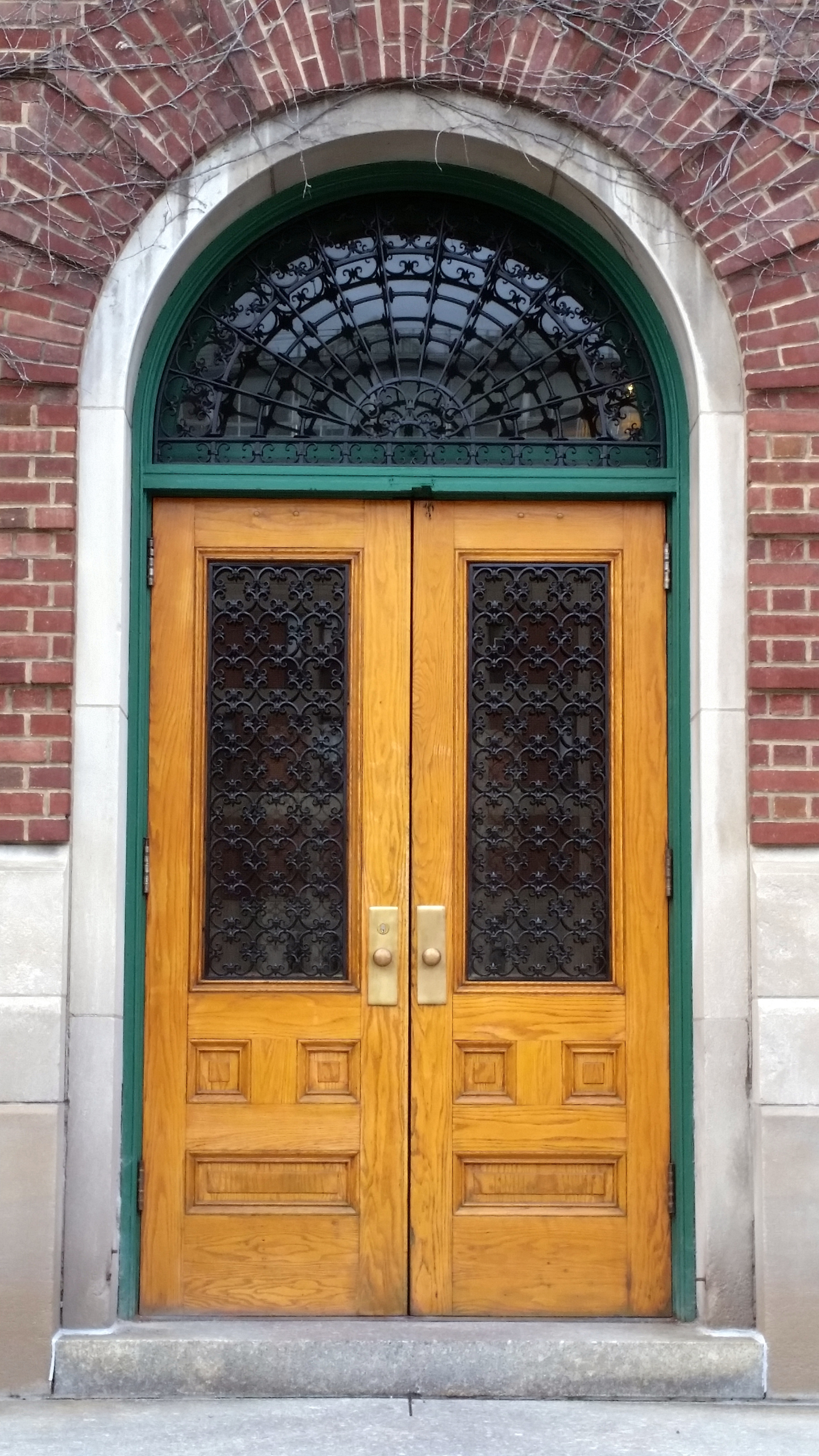 Pair of wooden front doors, set in stone and brick entry way; Louis Marshall Memorial Hall, State University of New York College of Environmental Science and Forestry (SUNY-ESF), Syracuse, New York, USA, construction c. 1937. The heavy 2" thick doors are made of solid wood (oak?), glass, and wrought iron, with brass hardware. The outside front entrance way of Marshall Hall has three sets of such doors; inside are three corresponding sets of interior wooden doors. Reflecting in the glass is Illick Hall, across the quad, including (in the upper semi-circle), the rooftop greenhouses.